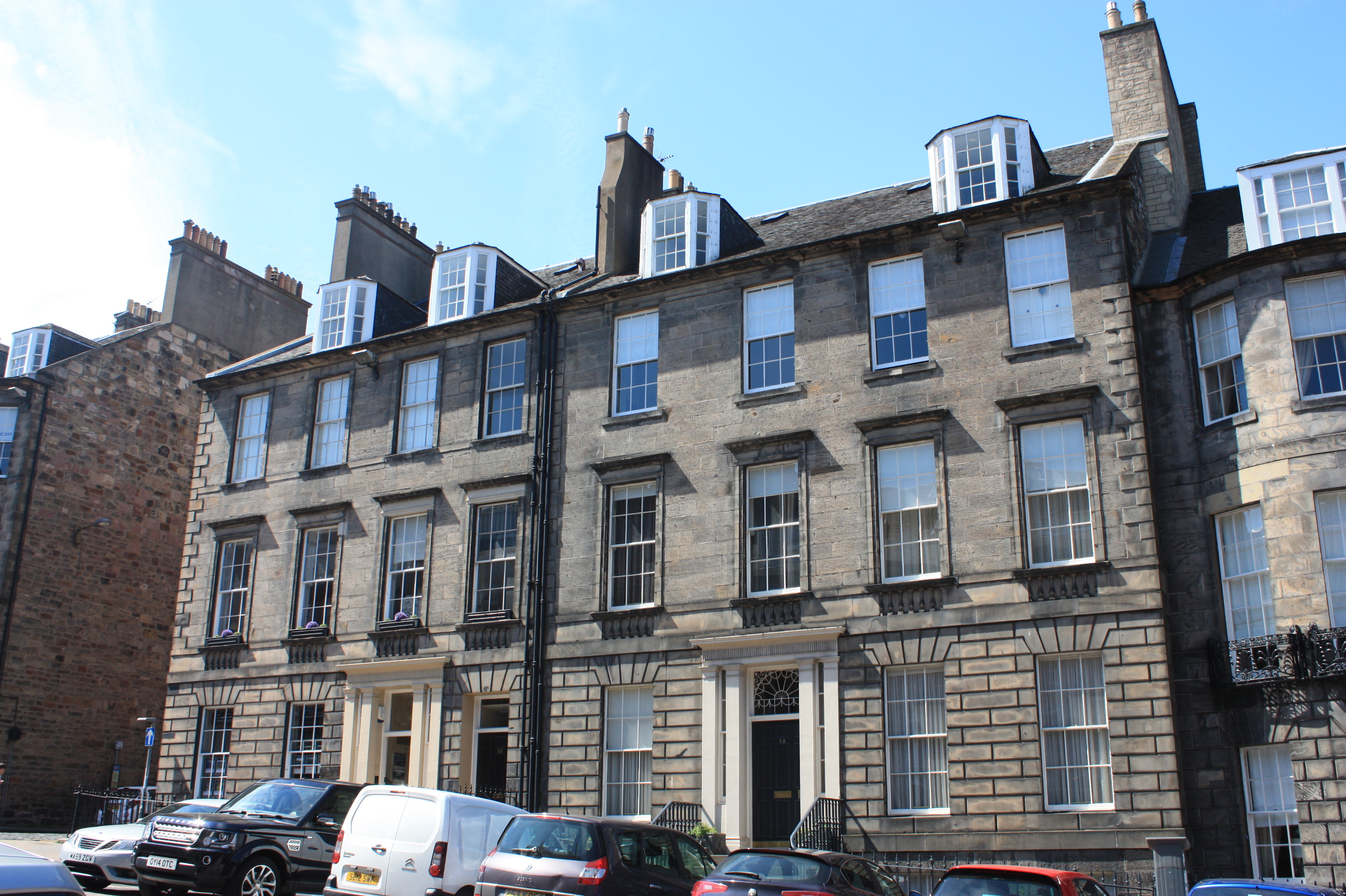 48-52 North Castle Street, Edinburgh